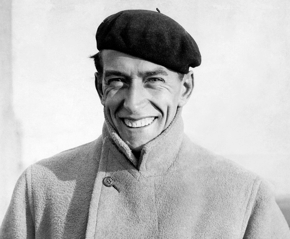 Henri Cochet At The Beginning Of The 1930'S.